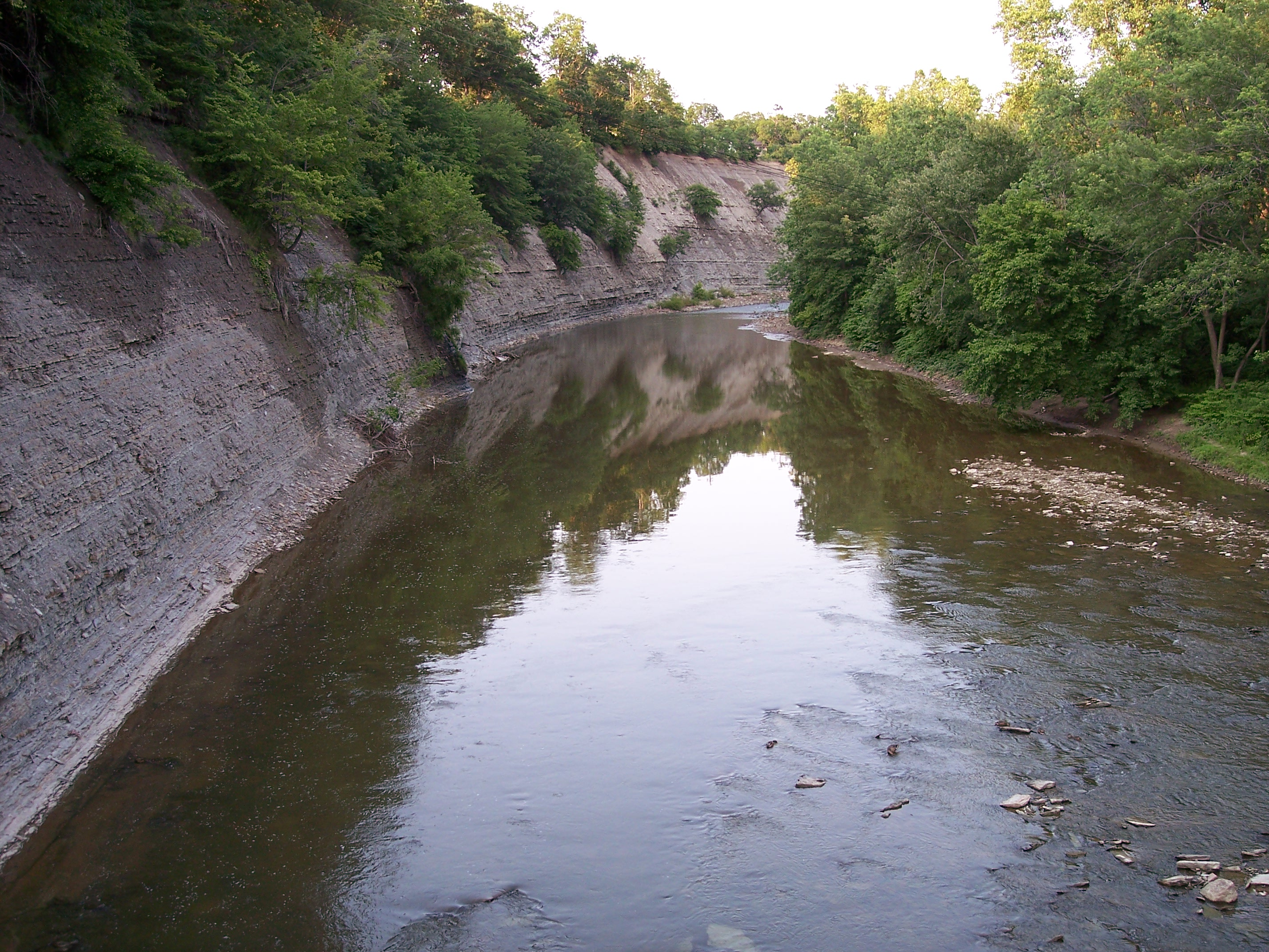 The Rocky River in the Rocky River reservation of Cleveland Metroparks, as viewed from a bridge on the boundary of the cities of Lakewood and Rocky River in Ohio